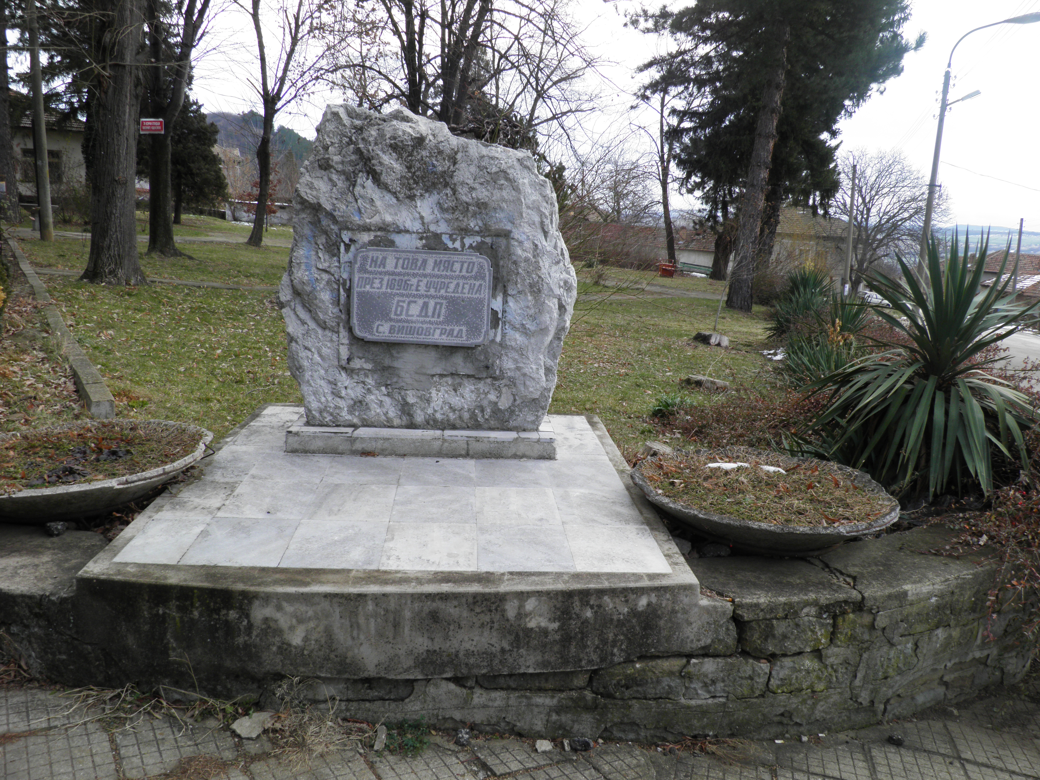 Monument BSDP Vishovgrad,Bulgaria